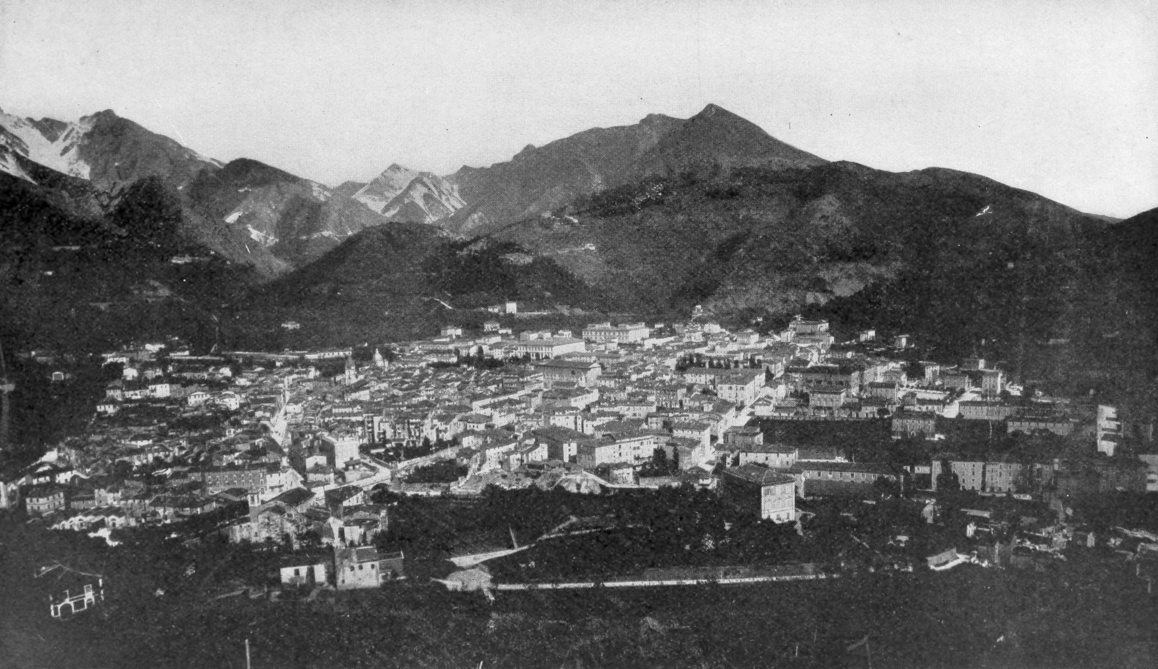 Carrara, Italy. Title: Cassier's magazine Year: 1891 (1890s) Authors: Subjects: Engineering Publisher: New York Cassier Magazine Co. Text Appearing Before Image: GIANT STRING OF OXEN HAULING MARBLE IN CARRARA., ITALY will be so shattered by the explosionthat the waste marble is much morethan the block which is loosened. Theheight of the quarries, however, al-lows the block to slide down theslopes of the mountains by gravity,and in this way a mass weighing somuch that it could not be lifted bythe power available can be lowered bymeans of block and tackle to the foot of the mountain to be shaped into aform so that it can be sent away. While some of the miners havedrills operated by steam and electricpower, much of the work is donewith the hand-power mill. Apparatusfor grooving the marble has not asyet been employed, except in a fewworks, the bulk of the product beingobtained by blowing it out. The METHODS OF STONE QUARRYING 147 Text Appearing After Image: 148 CASSIERS MAGAZINE holes are drilled where, in the judg-ment of the quarry director, the ex-plosive will be most effective, but be-fore being charged they are usuallyenlarged by pouring nitric acid intothem, which eats away the interior.The explosive is then inserted. Inrecent years the electric current hasbeen used to ignite it, but in many ofthe larger operations the fuse is stillemployed. The charges are not always sodistributed that the block desired isloosened, so a second blast is fre-quently necessary to completely de-tach the mass, when some of theneedless surface is cut off on thespot with chisel and mallet. Thenthe material is ready to be trans-ported to the marble mills in the val-ley or to Avenza for shipment bywater. As the quarry may be severalmiles from the railroad advantage istaken of its height. If the marble isa very large piece an inclined planemay be made, down which the blockslides upon a wooden sledge, con-trolled by ropes fastened about it,which are run thro